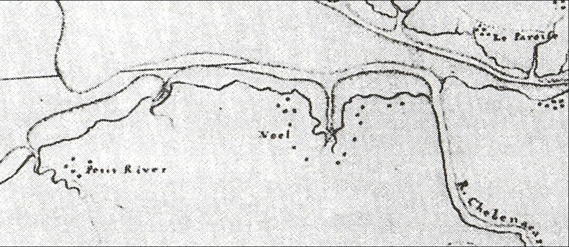 British Kings Map of the Cobequid, Nova Scotia/ Acadia (inset)